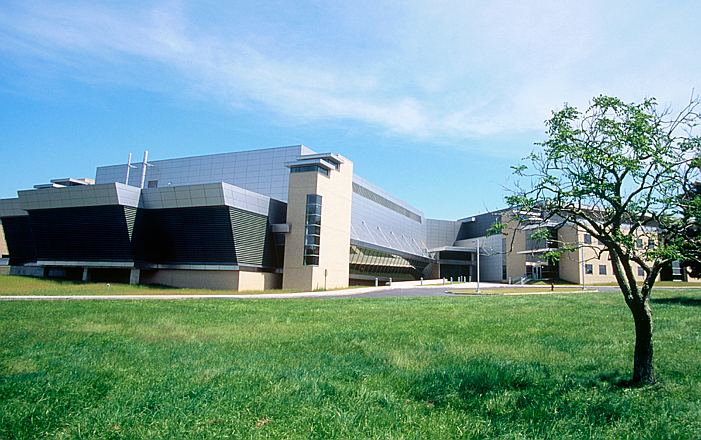 Photograph of the NIST Advanced Measurement Laboratory (AML) building Gaitherburg, MD. The NIST Advanced Measurement Laboratory building was designed by HDR Architecture Inc., and built by Clark/Gilford, Joint Venture. Construction began on the building on June 9, 2000 and it was completed by June 2004.